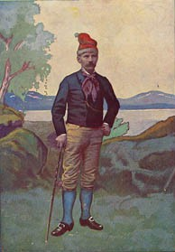 Photo from 1888 (hand coloured) of Swedish author Erik "Ecke" Olsson